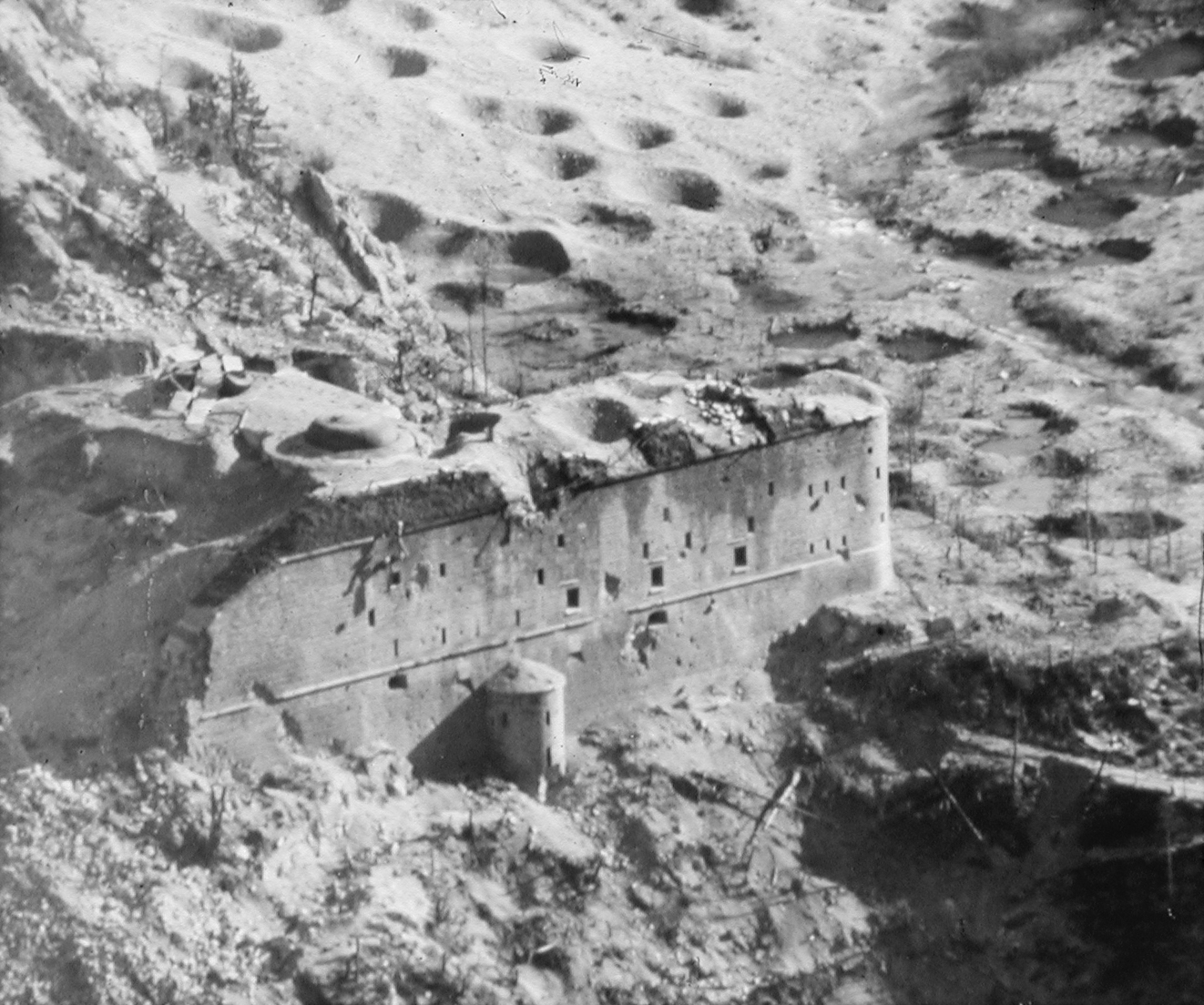 World War 1 - Italian Army: the Austrian Fort Hensel in Malborghetto as seen from the Italian positions on Monte Pipar